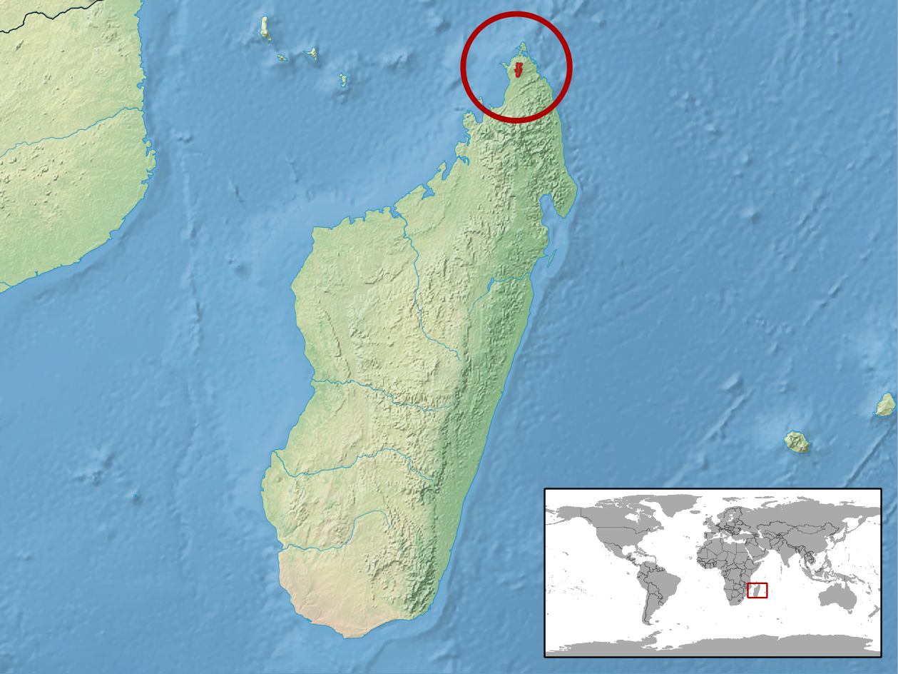 geographic distribution of Calumma ambreense (Native: Madagascar)